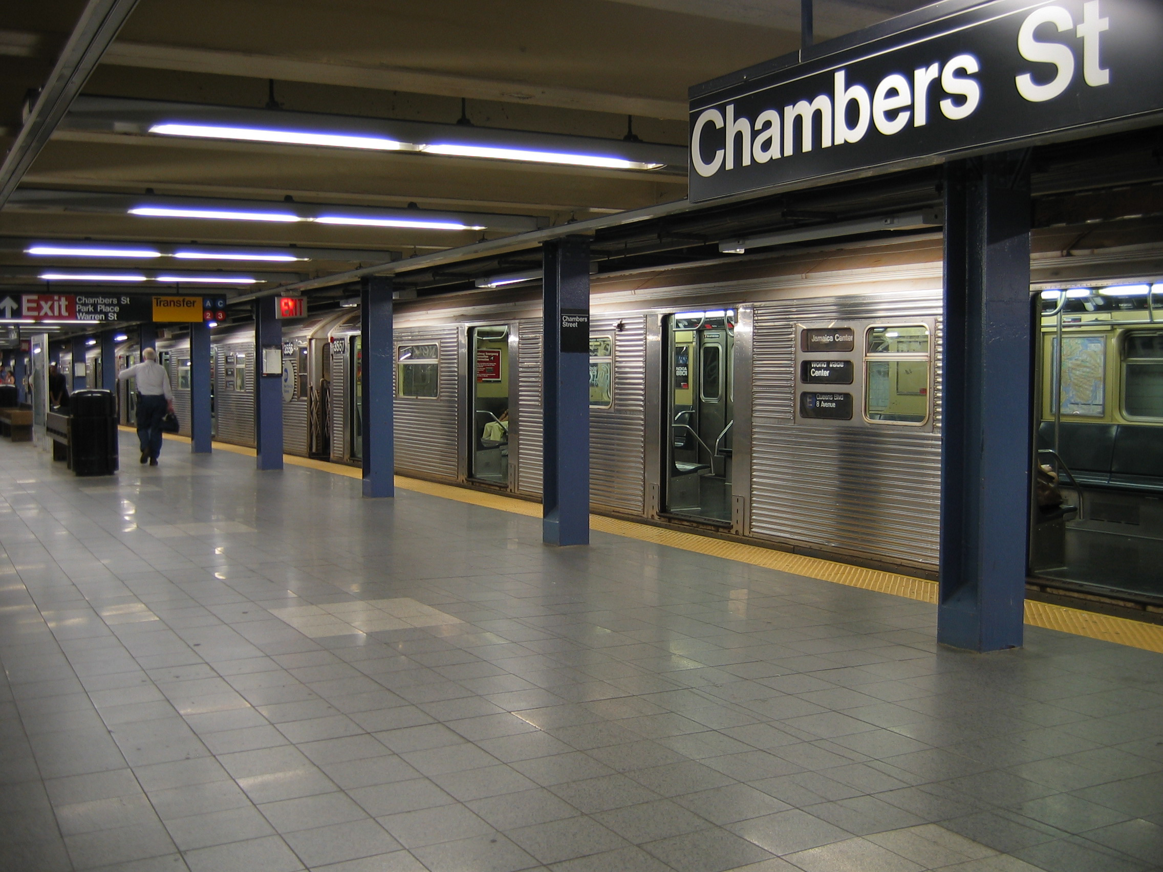 Chambers Street (A/C/E) New York City Subway station.